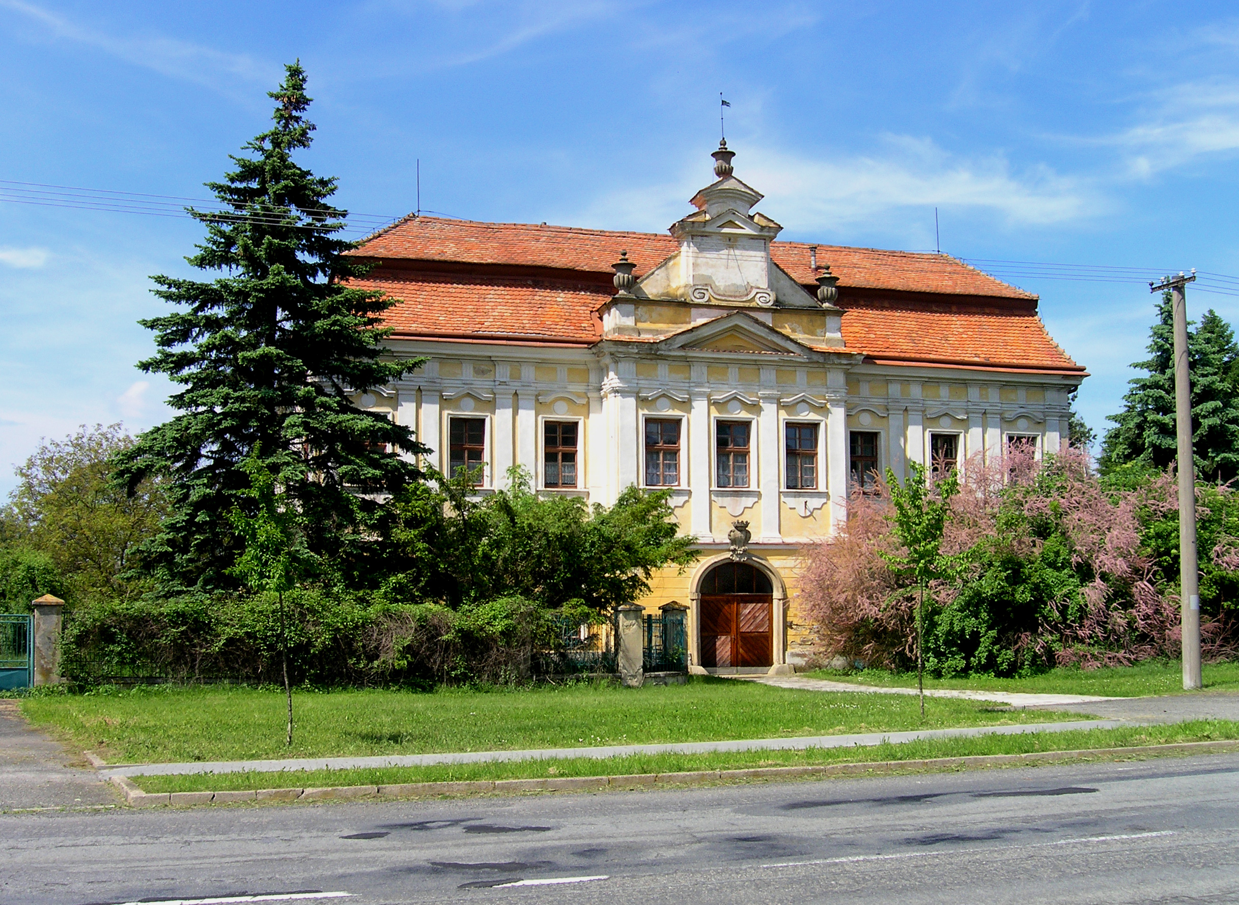 Cetechovice castle in Cetechovice village, Czech Republic